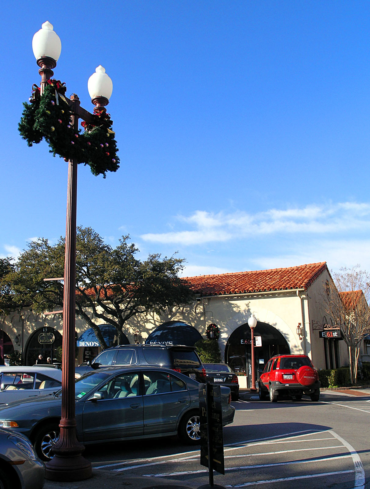 Highland Park Village during the Christmas-holiday-season in Highland Park, Texas, USA